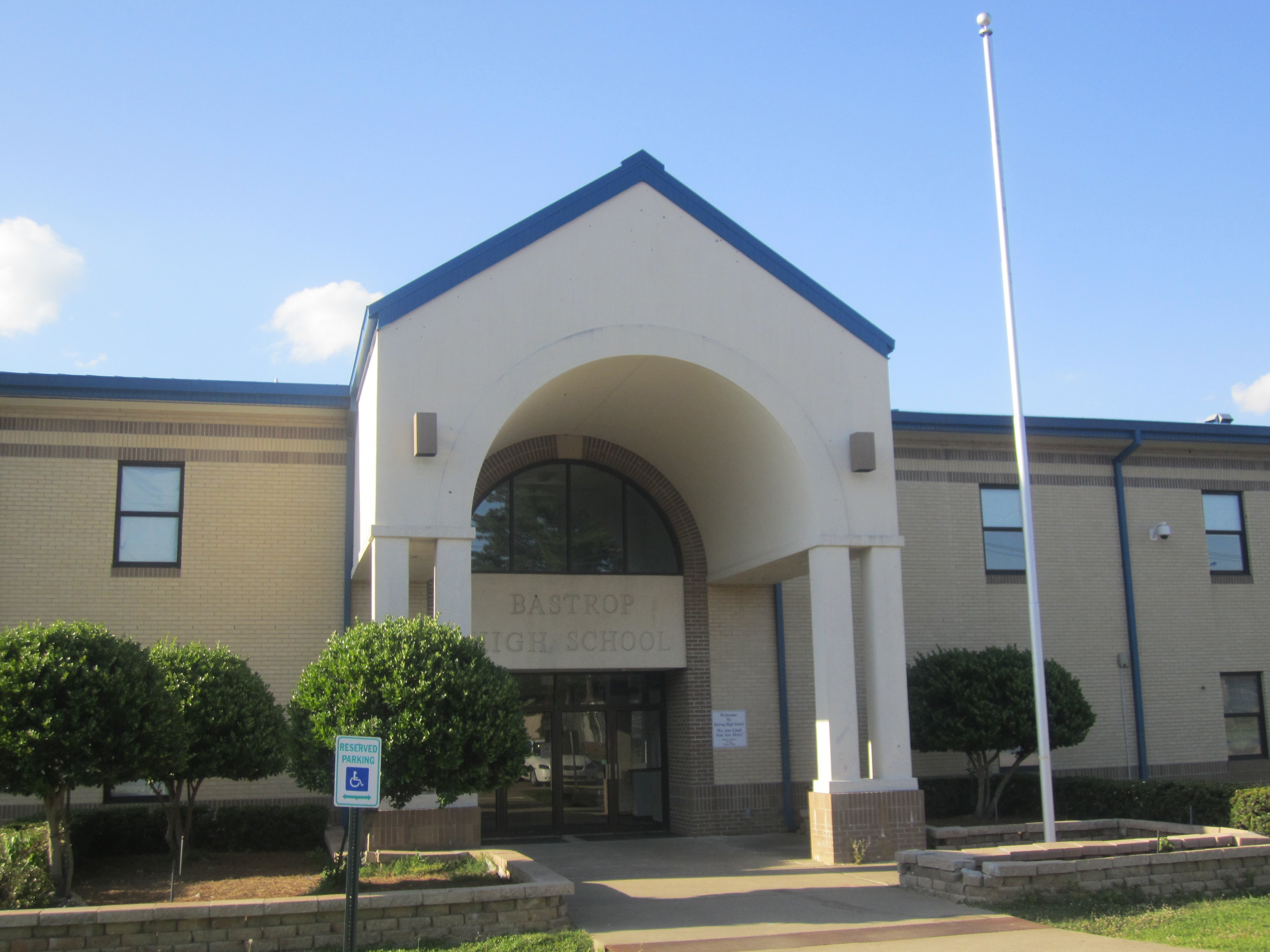 I took photo at Bastrop, LA, High School, with Canon camera.